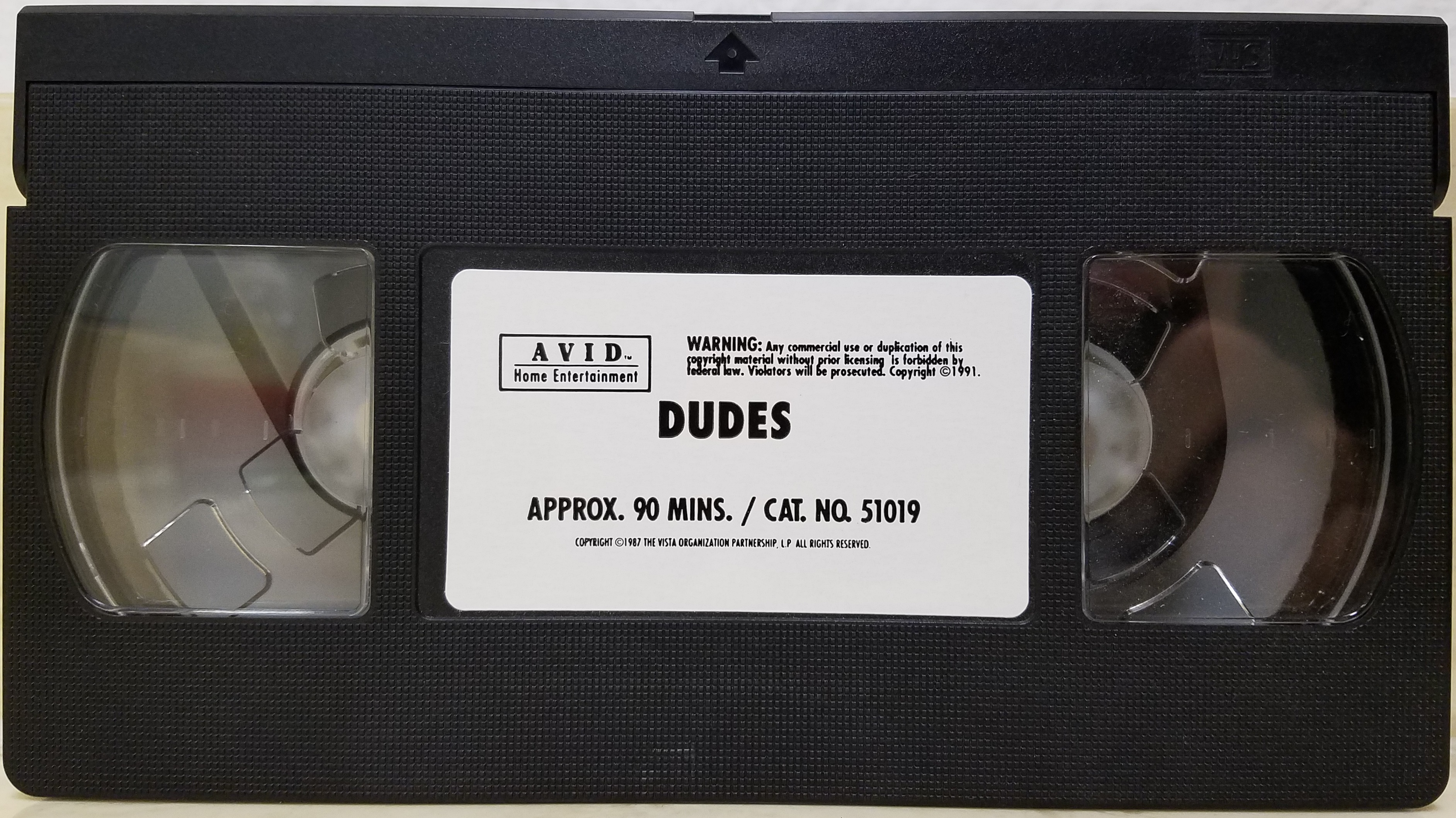 VHS copy of the 1987 film Dudes, from personal collection of the uploader. The VHS cassette is a generic object that I believe falls in the public domain (like File:VHS-Video-Tape-Top-Flat.jpg), while the label on the cassette consists only of simple text and geometric shapes which do not pass the threshold of originality necessary to be copyrighted.